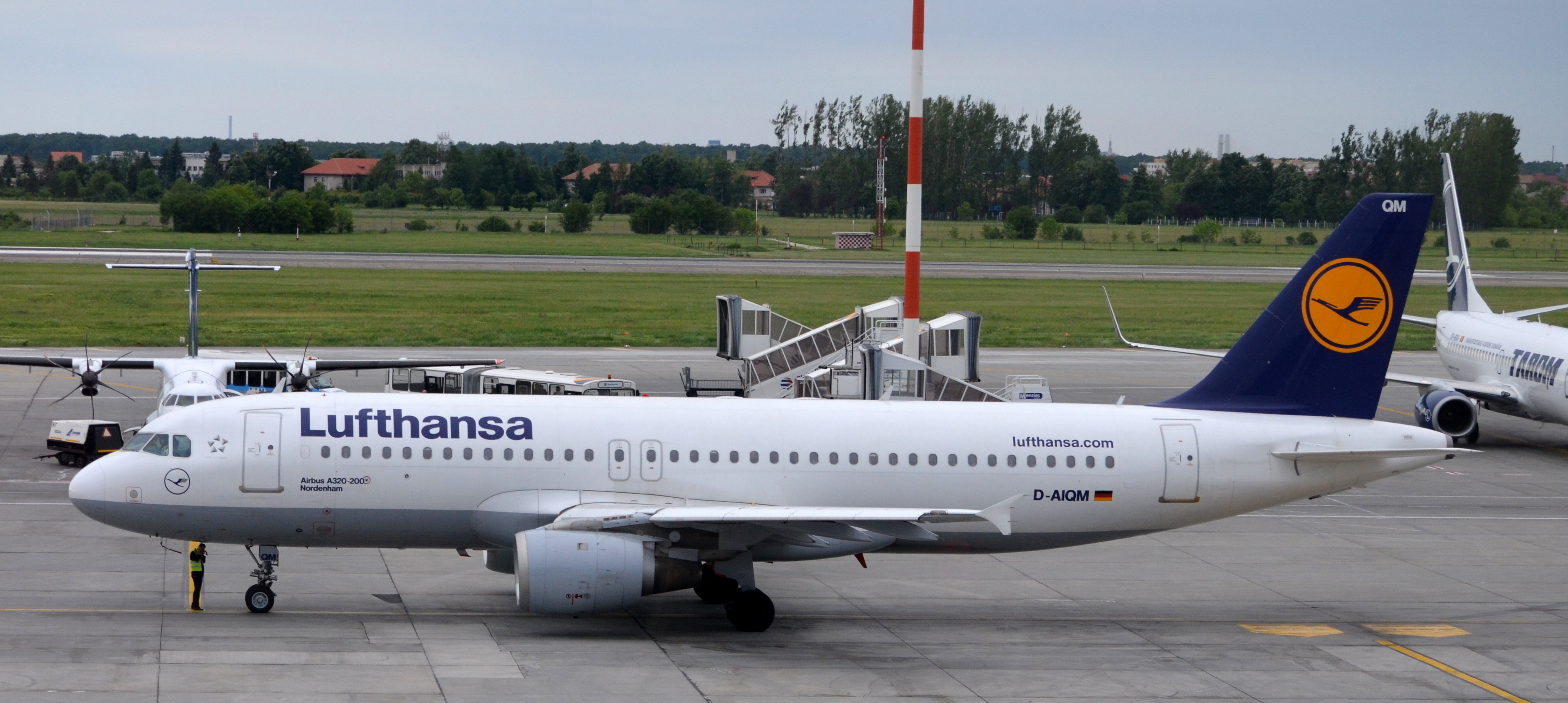 Airbus A320-211 (Lufthansa D-AIQM), at Bucharest Otopeni Airport